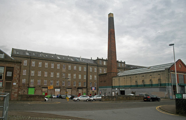 Tay Works, Dundee